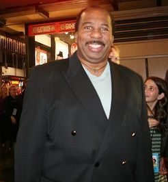 Leslie David Baker at the Dan in Real Life premiere